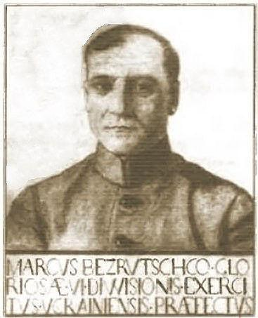 Marko Bezruchko, Ukr. Марко Безручко (1883–1944) - a Ukrainian military commander and a General of the Ukrainian People's Republic Army.